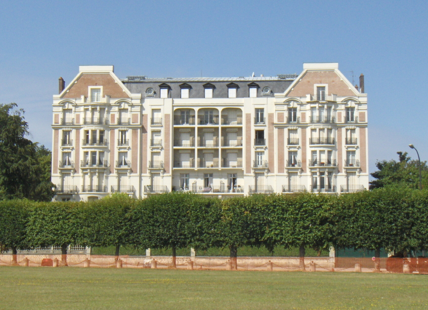 Former Grand-Condé Hotel in Chantilly (Oise)